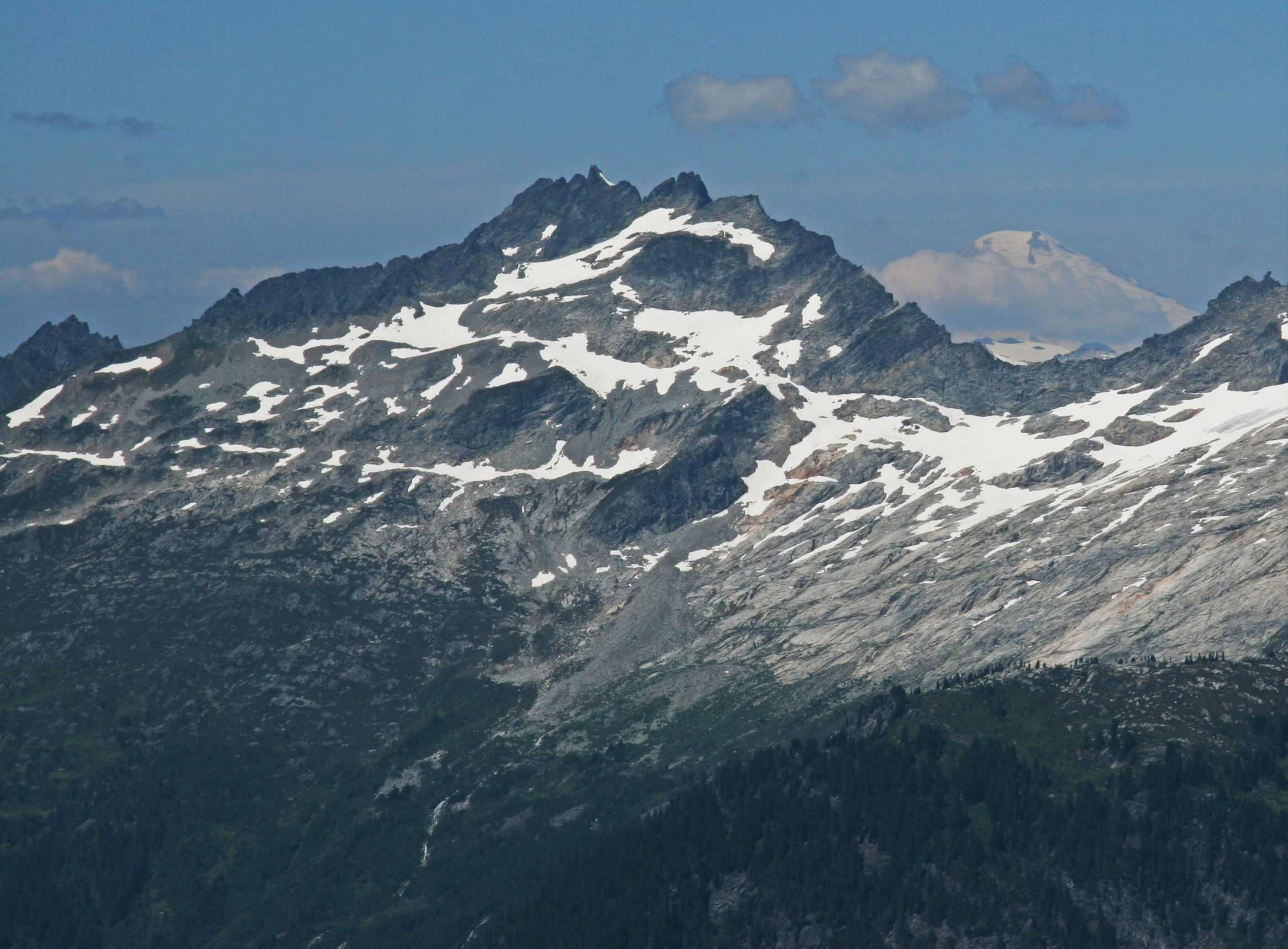 The Triad seen from Sahale Mountain in North Cascades National Park, WA